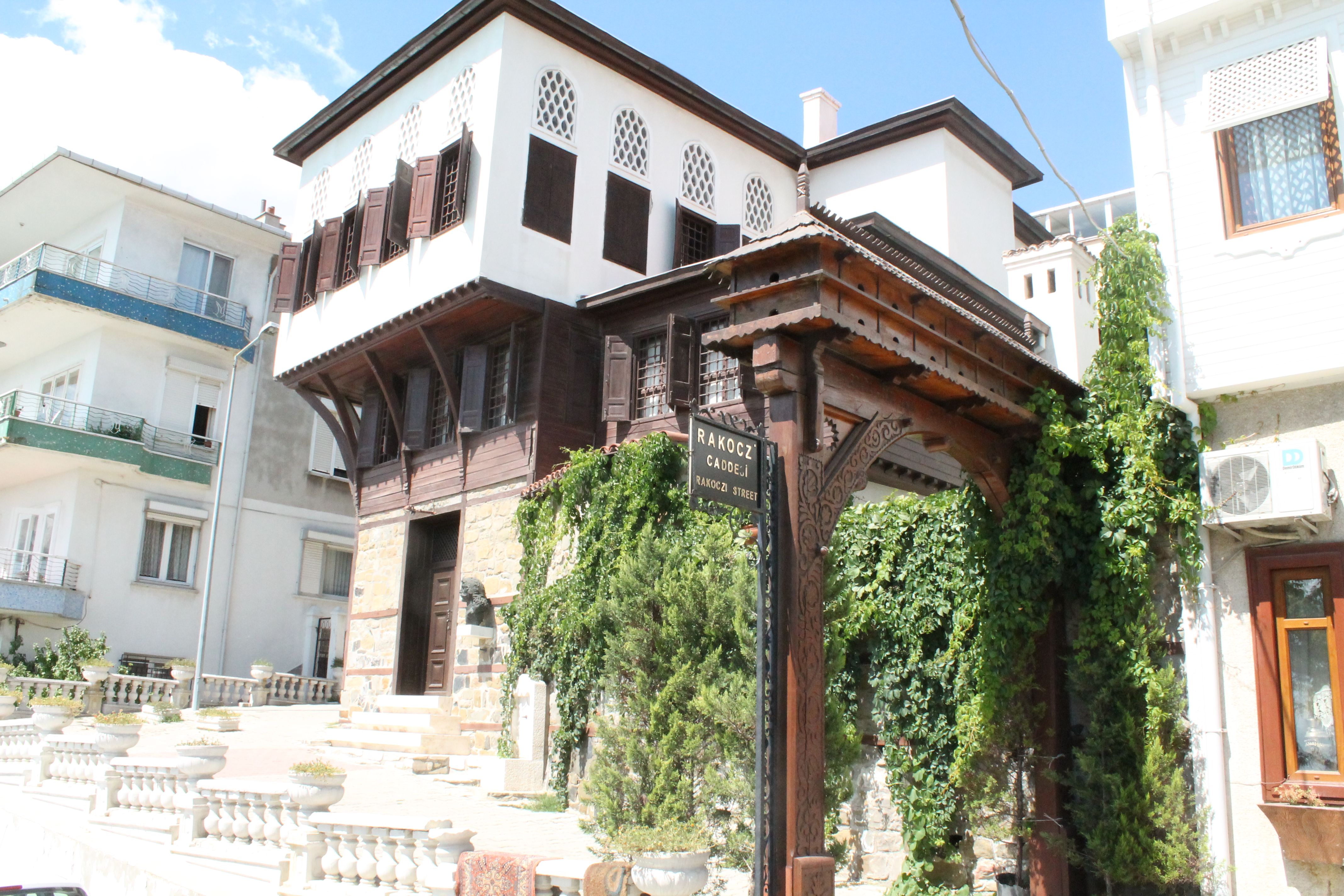 The memorial house of Francis II Rákóczi in Tekirdağ, TurkeyTürkçe: Günümüzde müzeye dönüştürülen Macar Rakoczi'nin evi, Tekirdağ